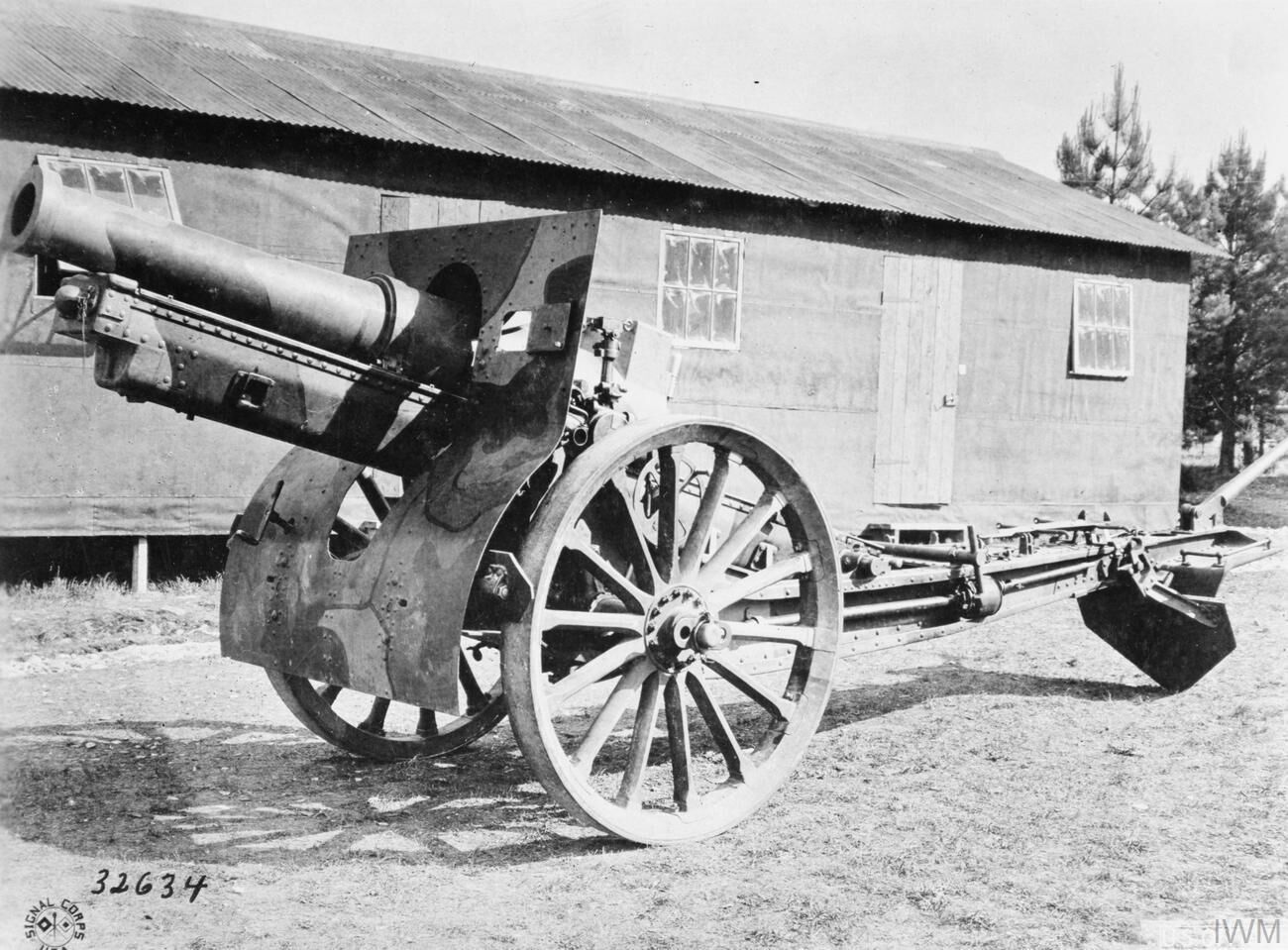 Artillery on the Western Front 15 cm French howitzer